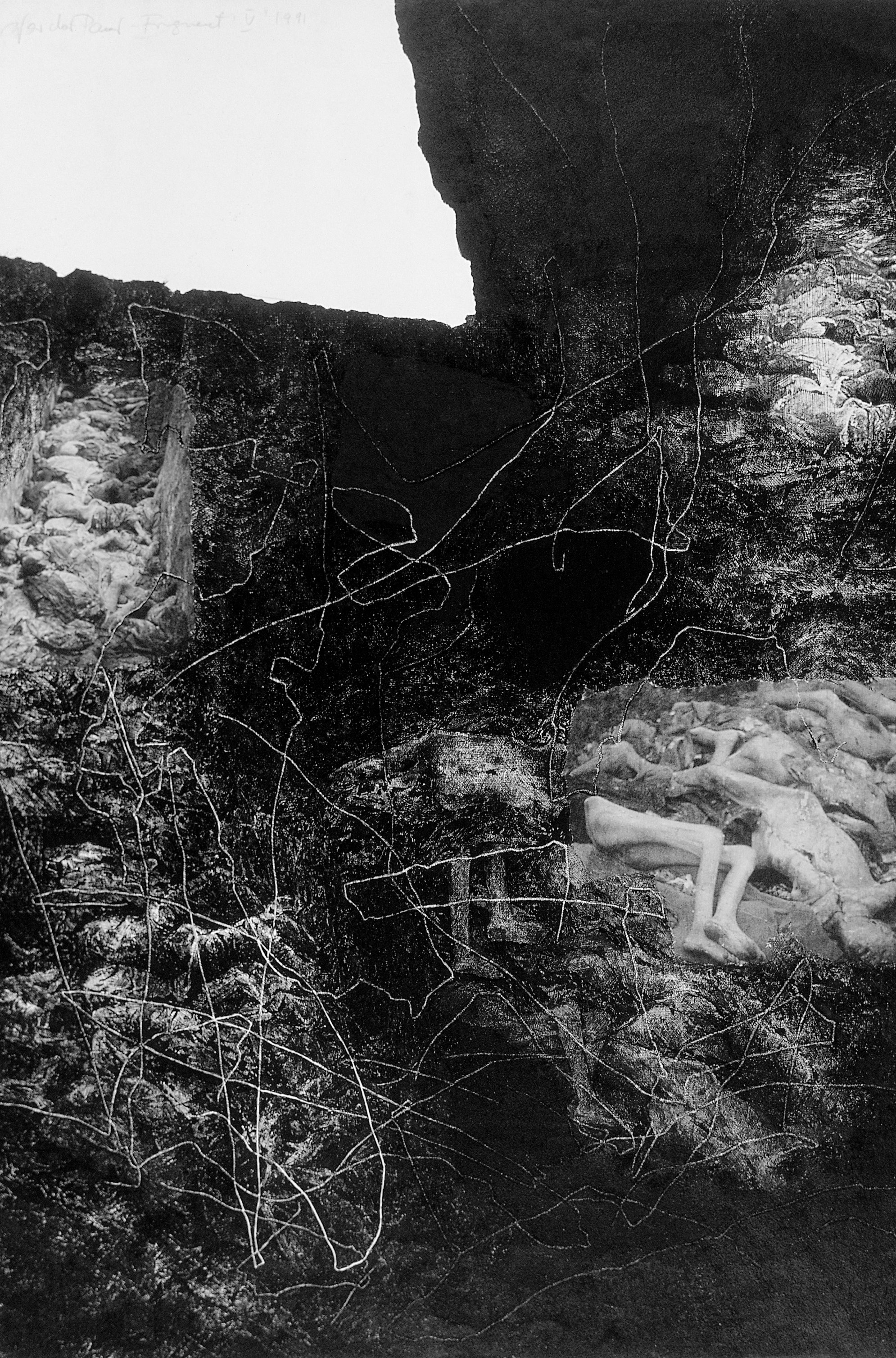 Paweł Warchoł - Picture 2 from the series “Fragments”.